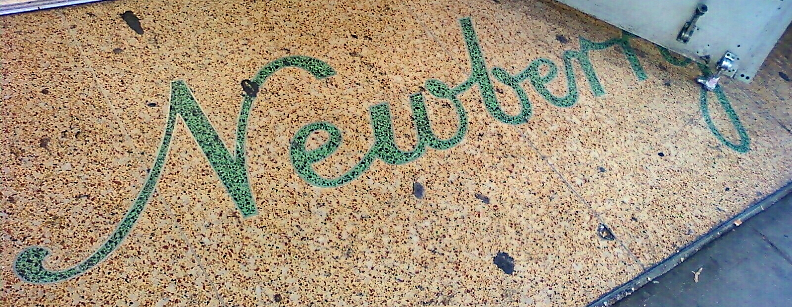 J.J. Newberry terrazzo floor entrance of the five and dime store's downtown Los Angeles, California location on 5th Street and Broadway Street at the ground level of the Metropolitan Building. J.J. Newberry operated at this location from 1939 until mid-1990's when the company began liquidating its storefronts. The photograph was taken with a Samsung Reclaim SPH-m560 mobile phone camera and edited (for brightness, contrast, crop) using ArcSoft PhotoStudio 5.5